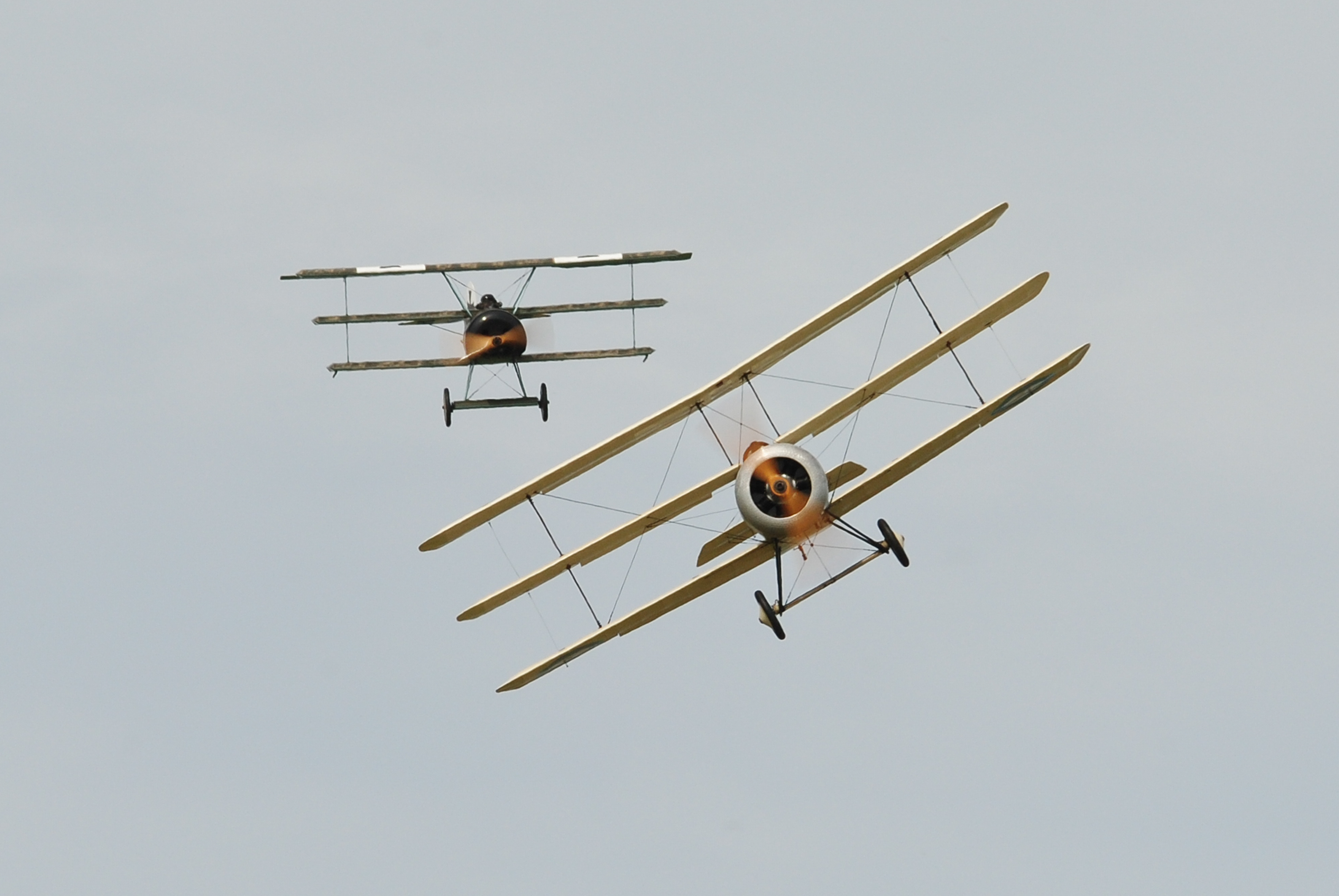 Great War Display Team taken at Shoreham Airshow 2013